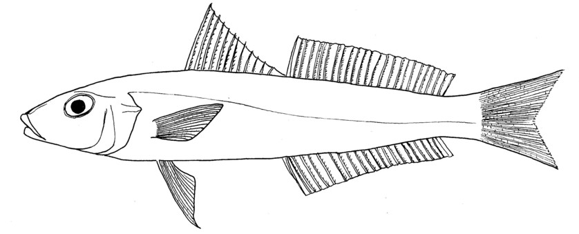 A hand drawn illustration of the Shortnose whiting, Sillago arabica. Illustration based on McKay (1989) in his description of the new species.